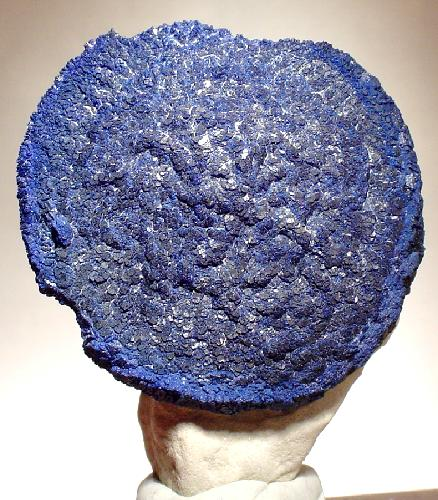 Azurite Locality: Malbunka Copper Mine, Areyonga, Alice Springs, Gardiner Range, Northern Territory, Australia (Locality at ) A FANTASTIC and showy specimen of a coin-like disc of blue azurite on a pillar of white limestone matrix from an uncommon Australian locality, Areonga. Very, very trivial edge bruising on this fine piece. Ex Marty Zinn Collection # 2163. 4.8 x 4.2 x 2.0 cm